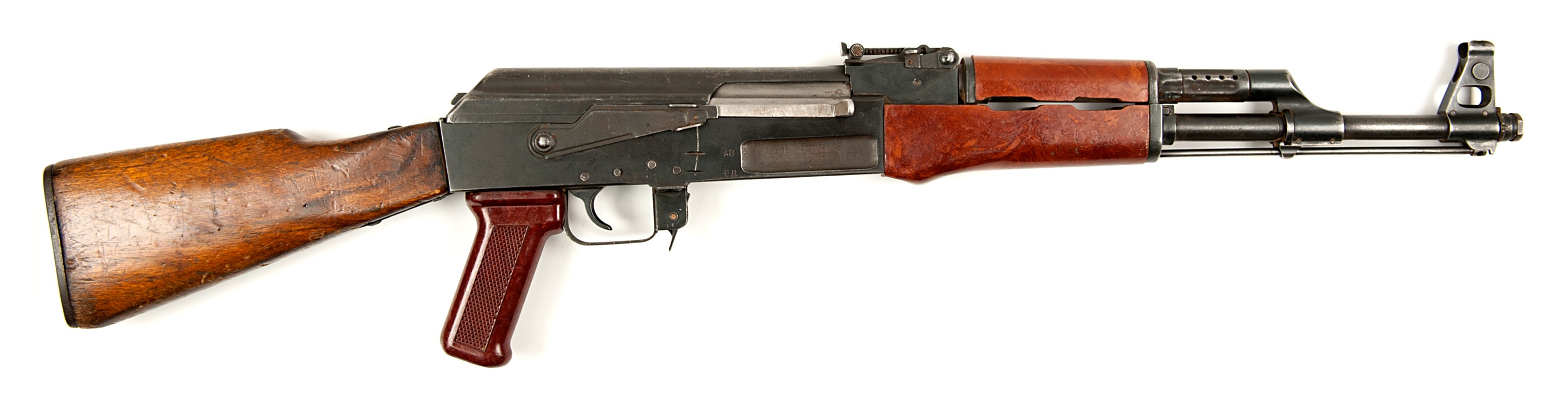 Picture of AKK (Bulgaria): Make: Bulgaria (Factory 10) Model: AKK Caliber: 7.62x39mm